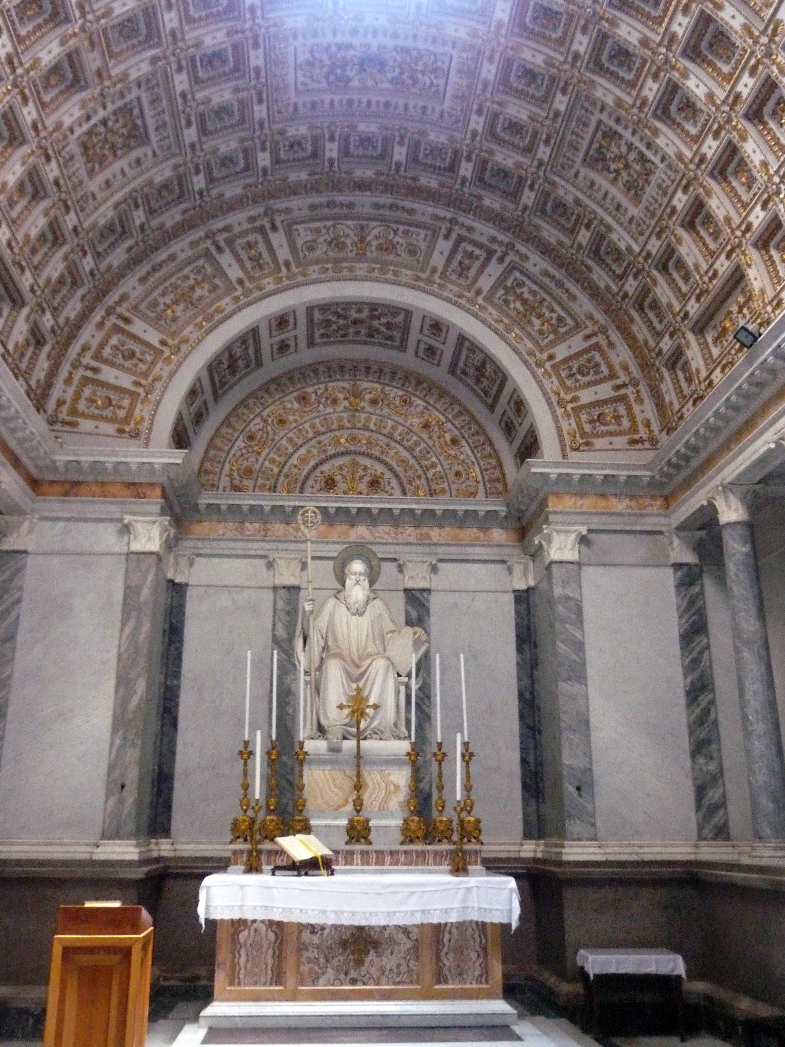 Basilica of Saint Paul Outside the Walls - St. Benedict chapel